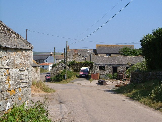 Kelynack Entering the hamlet along the lane from Cot Mill, with a finely undulating barn roof on the right. Glimpsed on the left is the B3306.